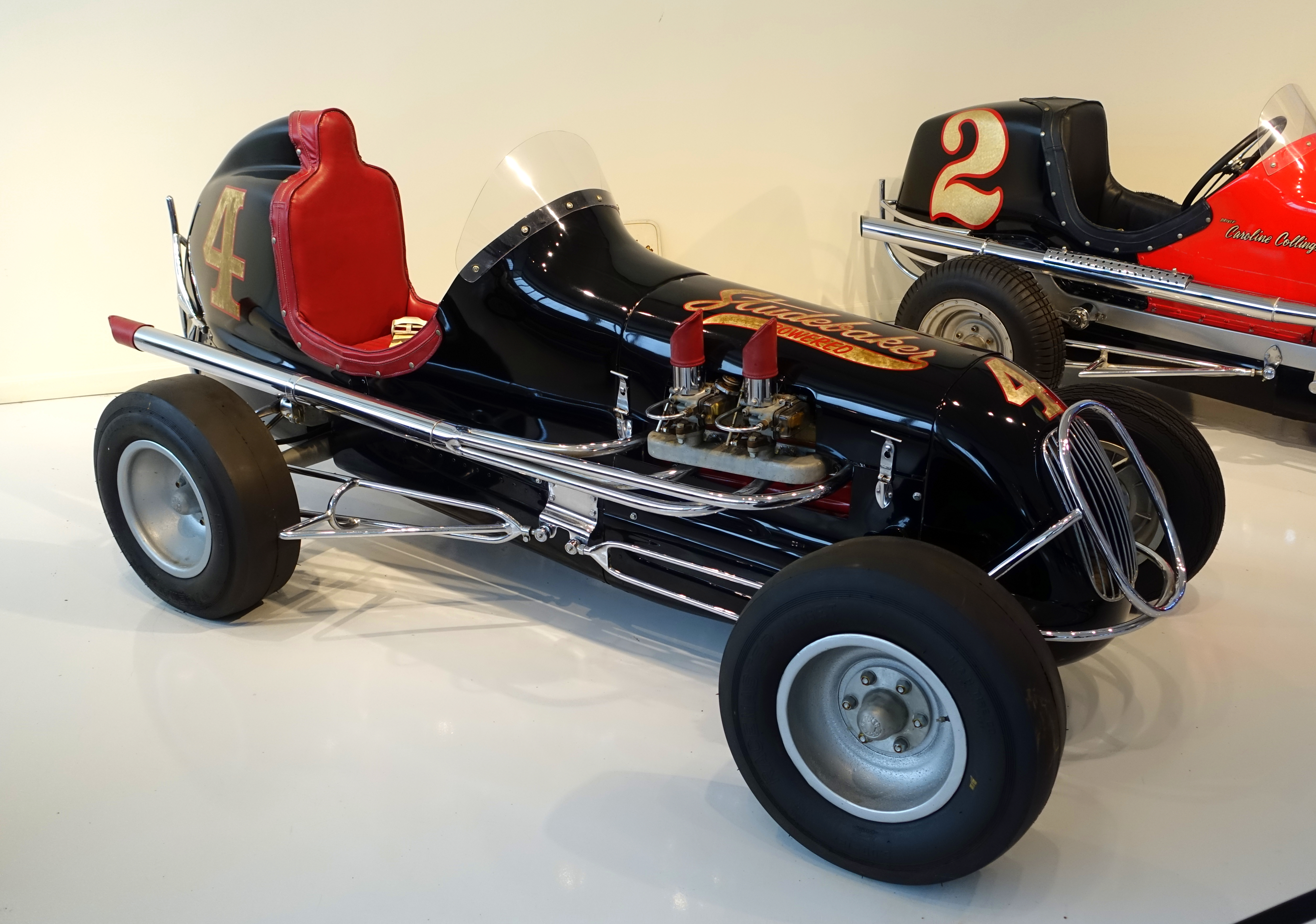 Exhibit in the Collings Foundation - Stow / Hudson, Massachusetts, USA.